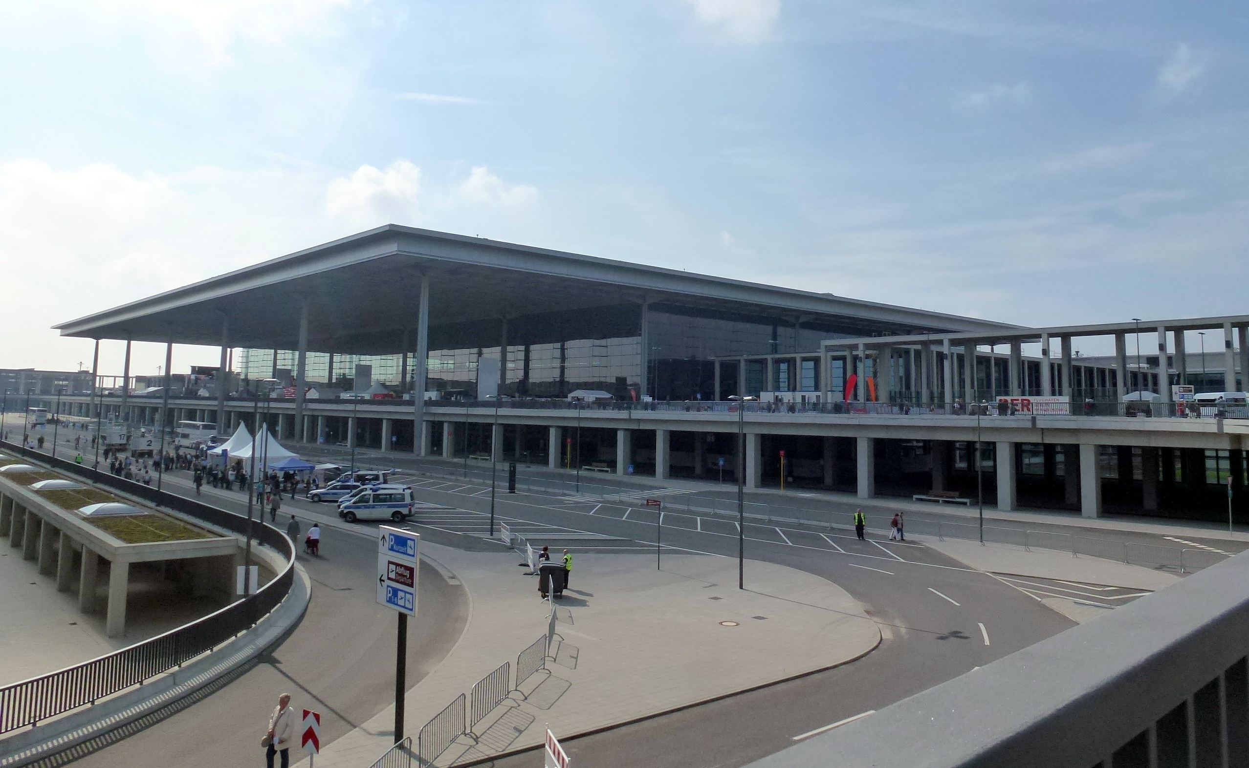 BER Terminal